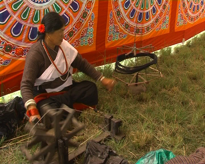 woman using the simple machine to make thread